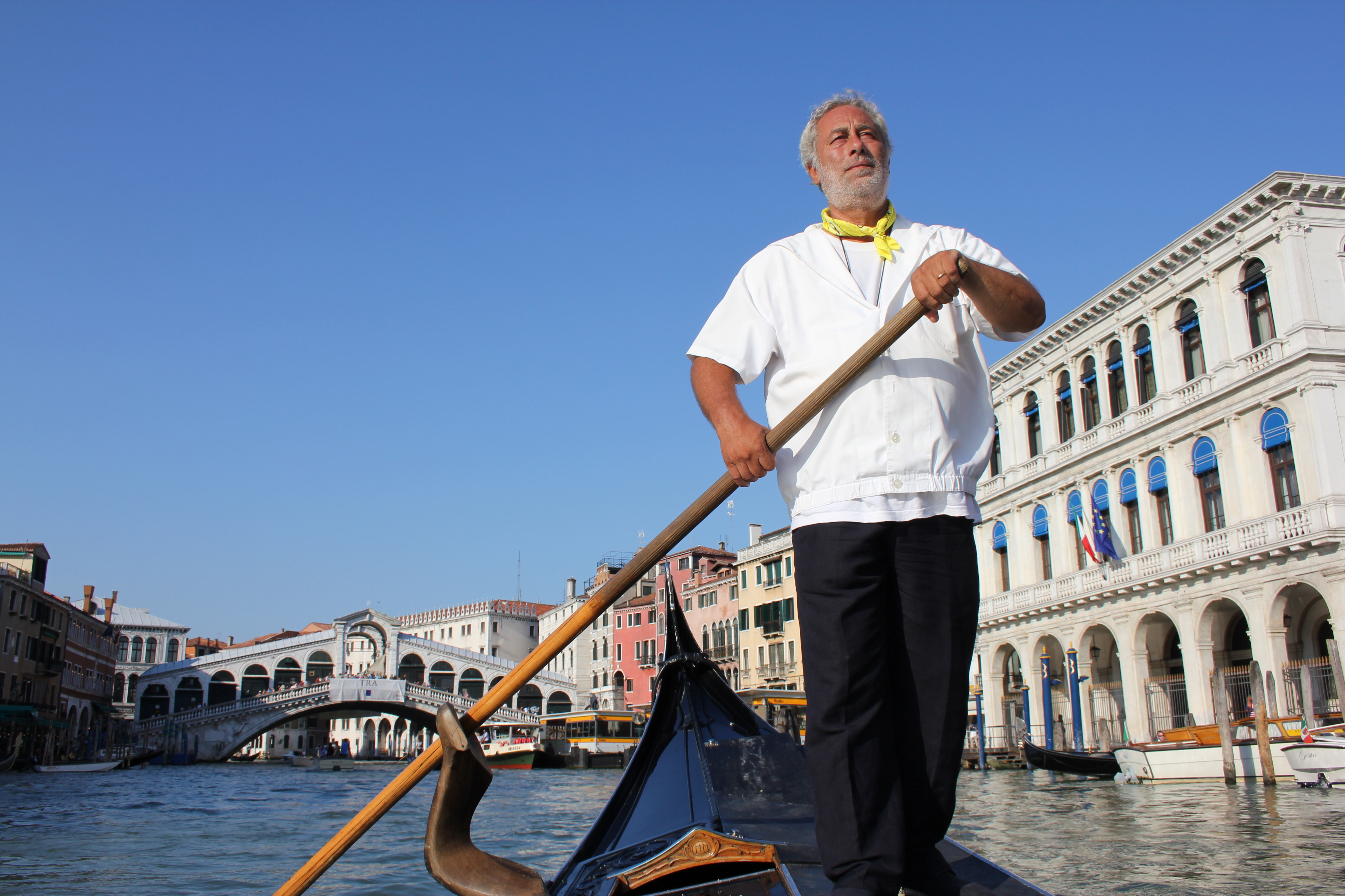 Picture of gondolier in Venice, Italy